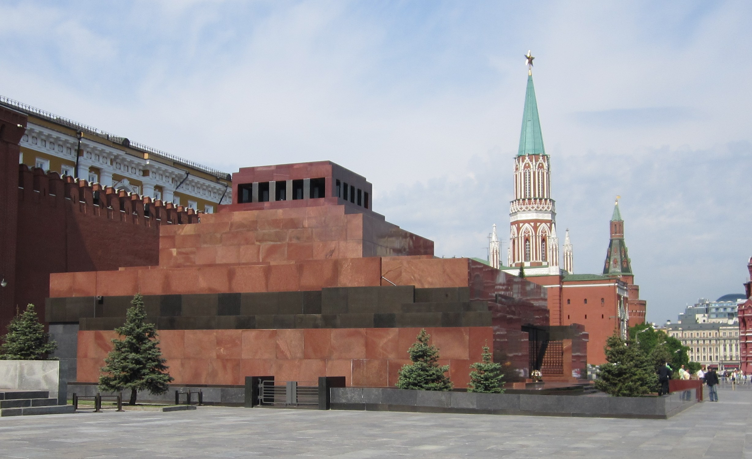 Lenin Mausoleum outside the walls of the Kremlin in Moscow